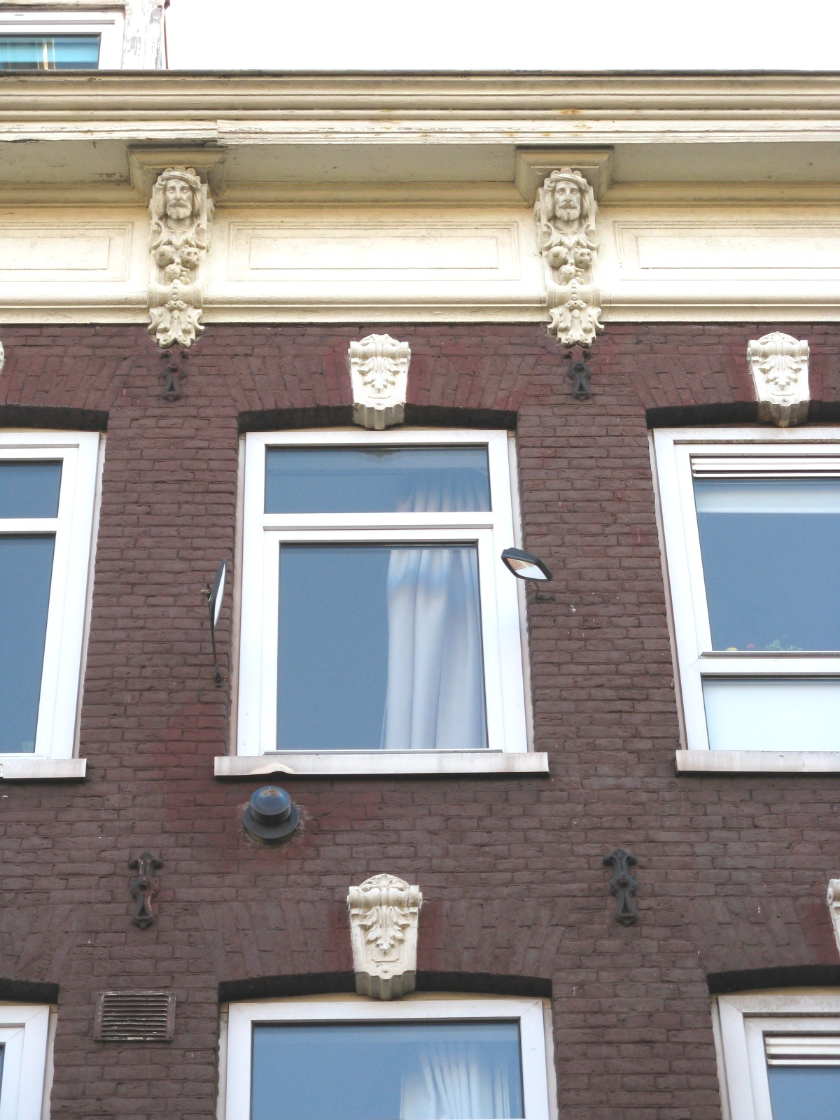 gossip-mirror. Left one directed sideways, right one directed downward